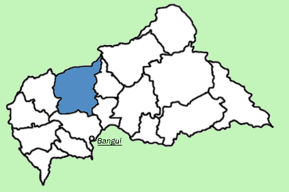 Map showing location of Ouham_Prefecture in Central African Republic